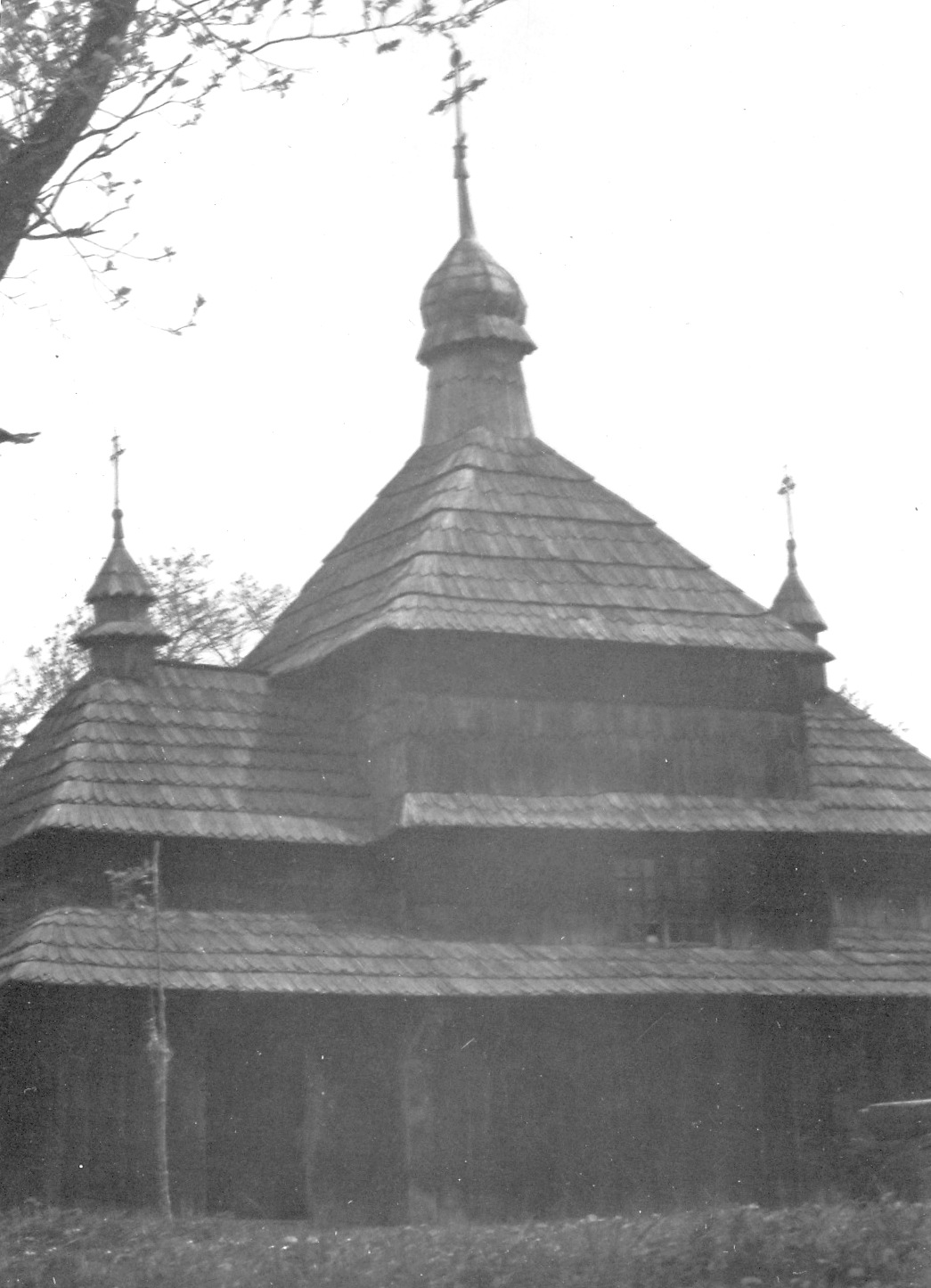 Church in Căbești, Storojineț, Ukraine (image from the archive of the Metropolitan of Moldavia, 1936, free of copyright)